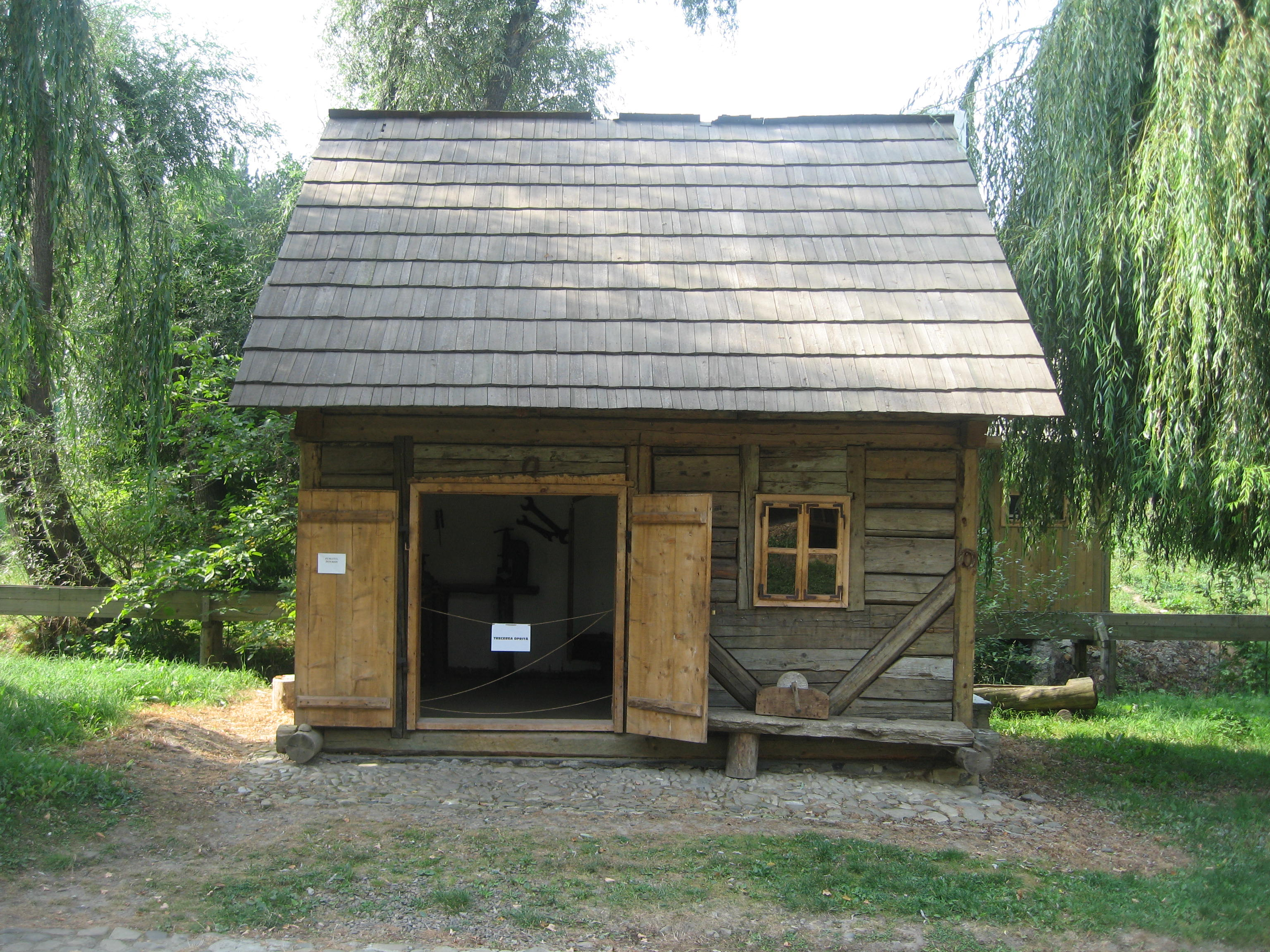 Bukovina Village Museum - The Forge.